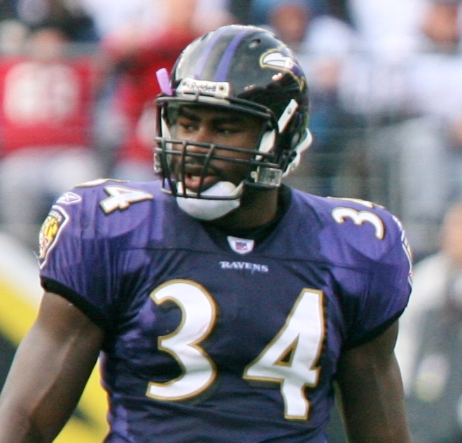 Baltimore Ravens players (left-right): Ovie Mughelli, Daniel Wilcox, and Dawan Landry